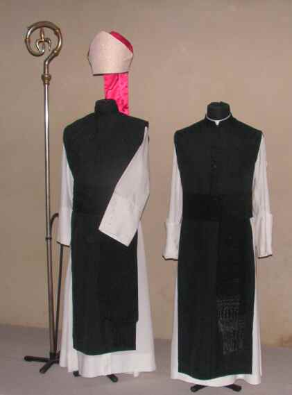 Habit of a Cistercian abbot.